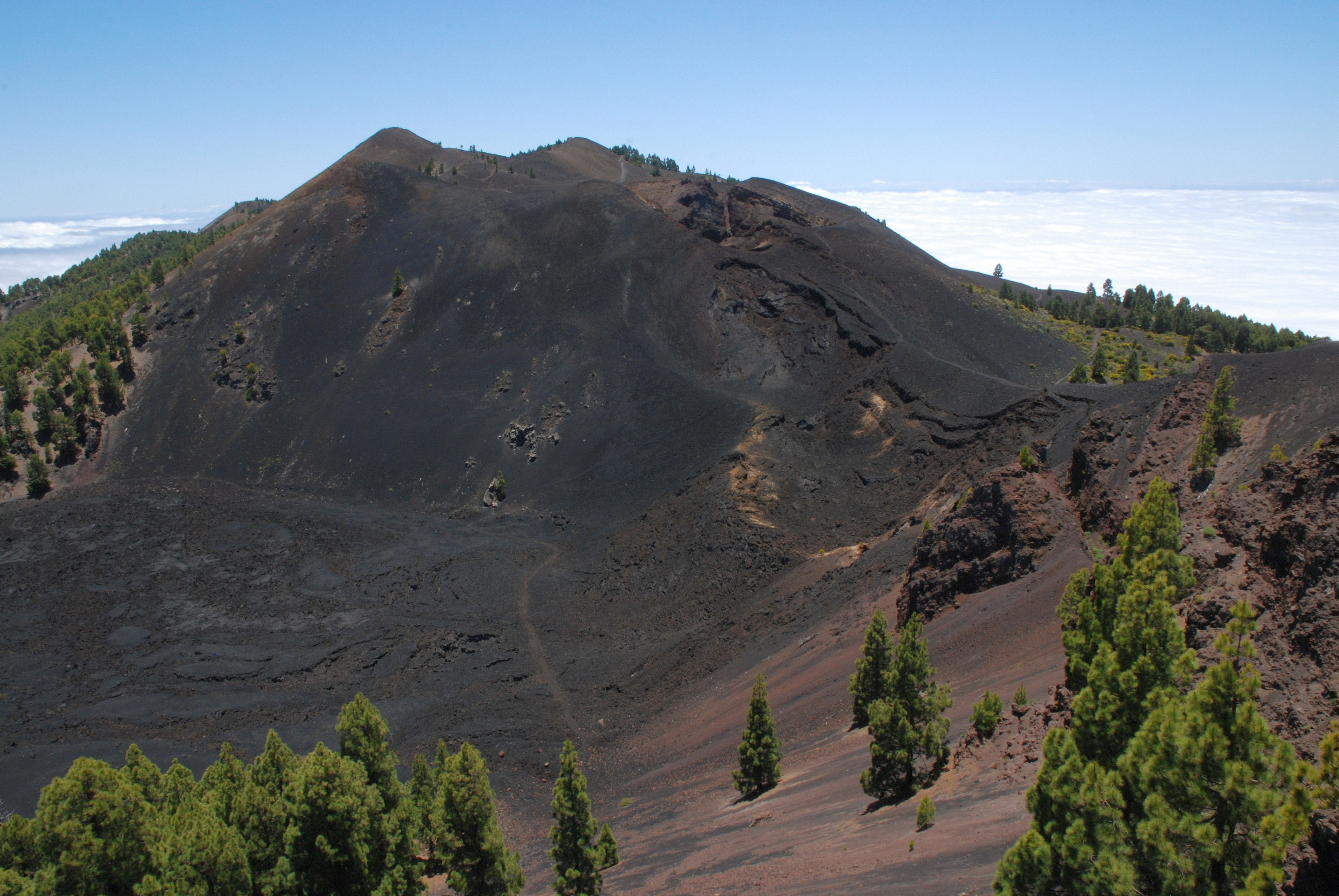 View at Lavas la Malforada and Montaña del Fraile, in the background Deseada, La Palma, Spain